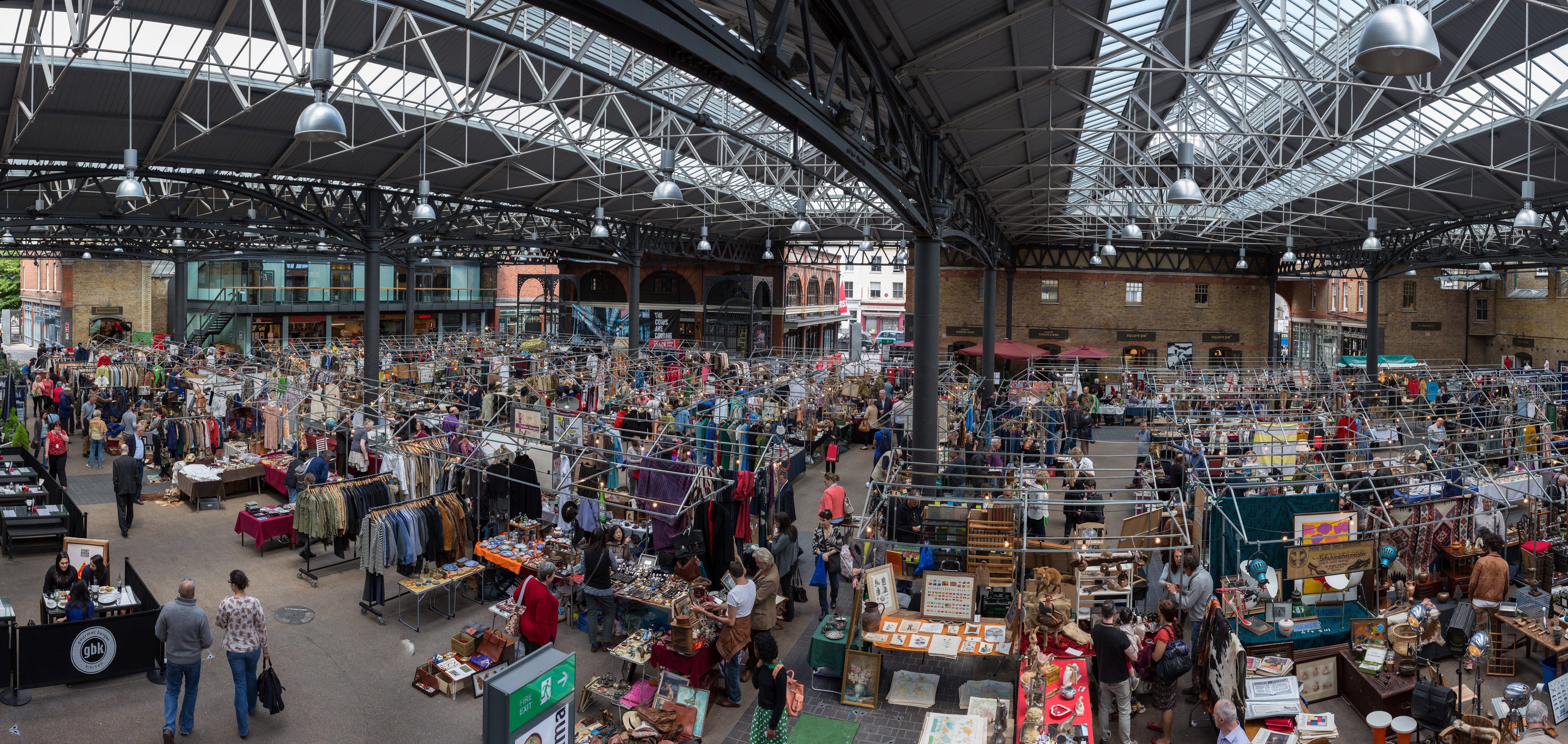 A panoramic view of Spitalfields Market in London, England.